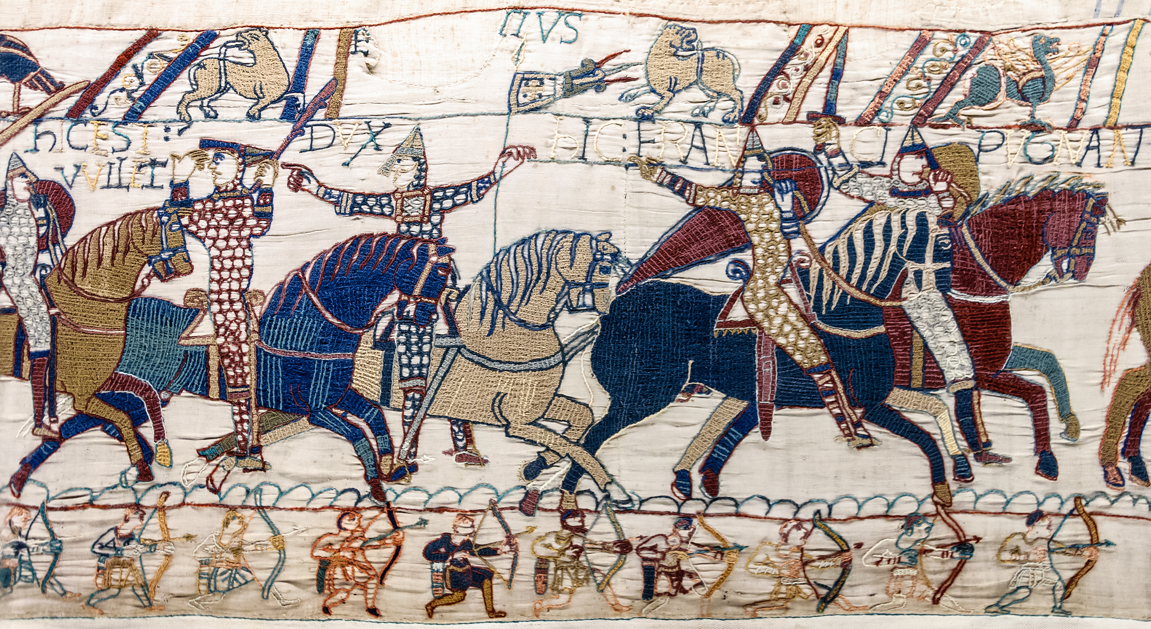 Bayeux Tapestry - Scenes 55 & 56 - Duke William lifts his helmet to be recognized on the battlefield of Hastings. Eustace II, Count of Boulogne points to him with his finger.In the bottom margin, a row of archers. Titulus: HIC EST WILLEL[MUS] DUX (Here is Duke William)